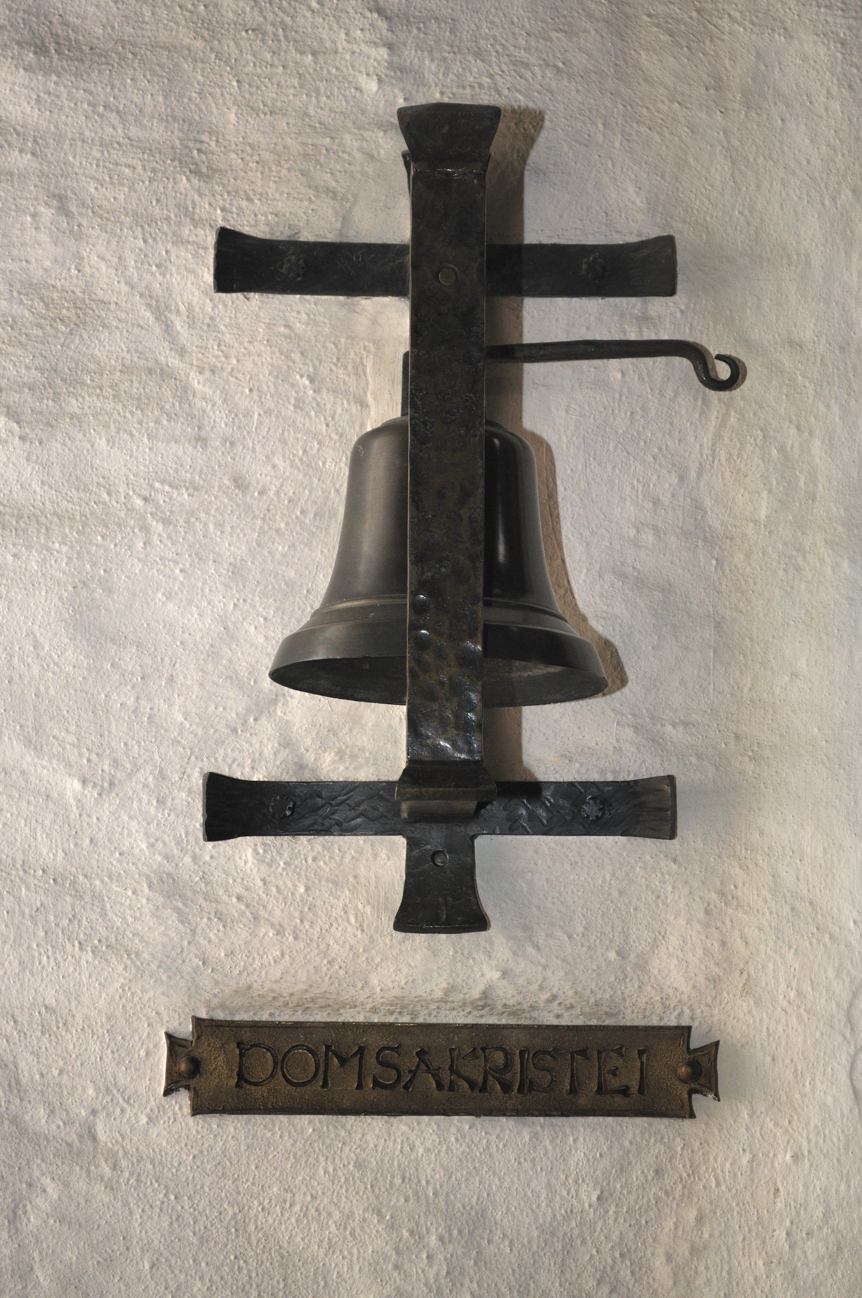 Picture taken in Speyer. Interior of the Speyer Cathedral.